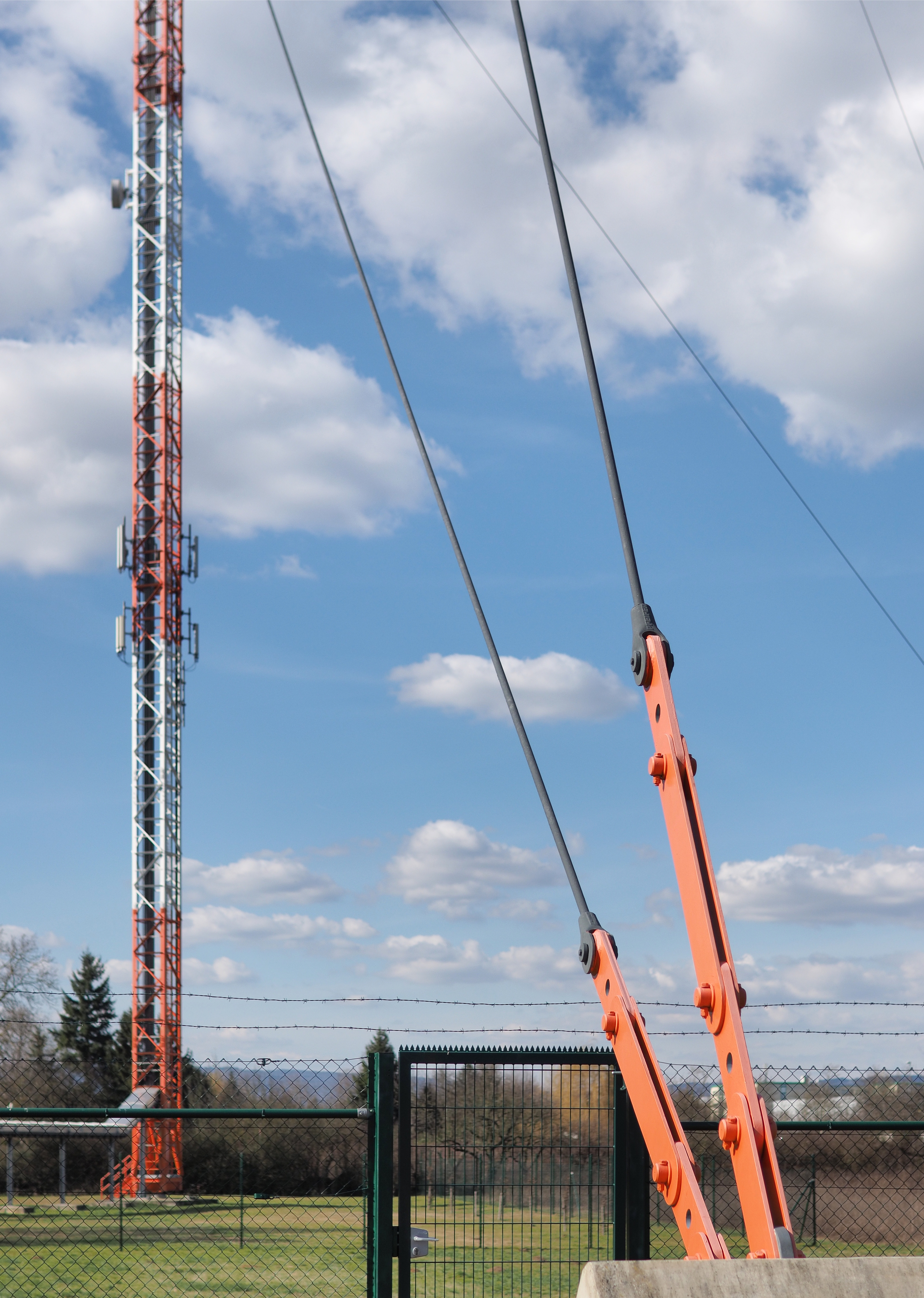 Guy wires of Mainz-Kastel transmitter, Hesse, Germany